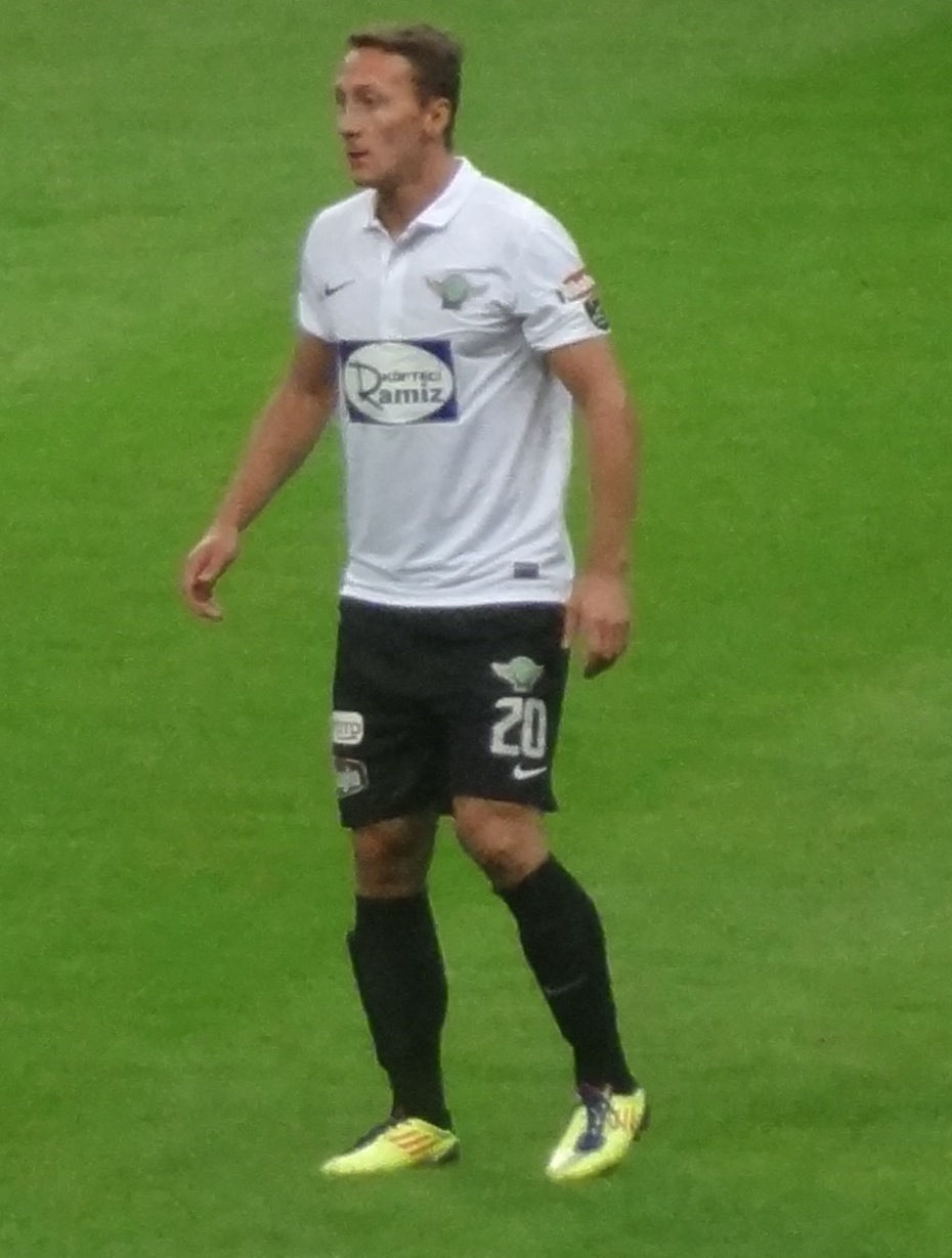 TT Arena